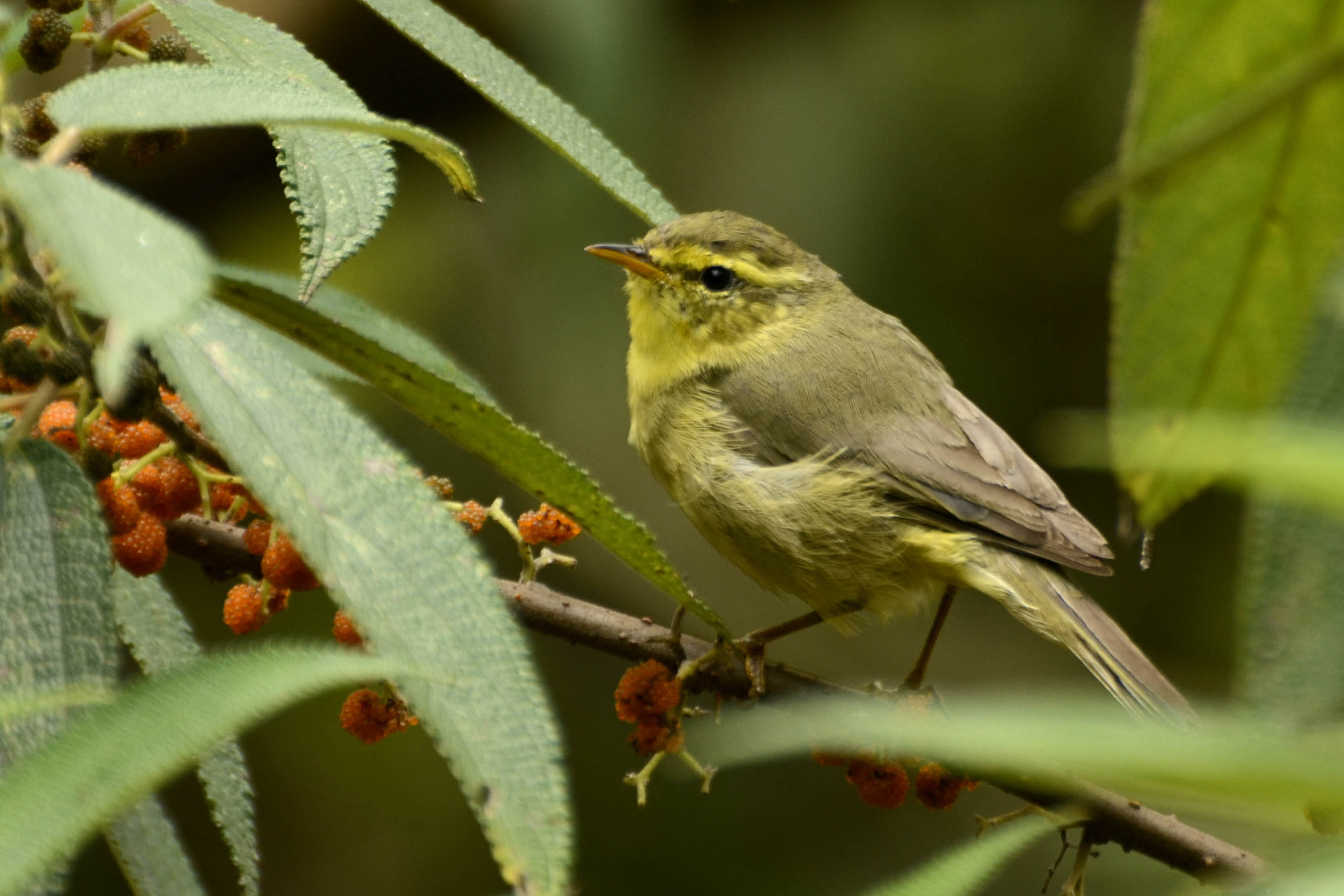 Tickell's Leaf Warbler Phylloscopus affinis from the Anaimalai hills